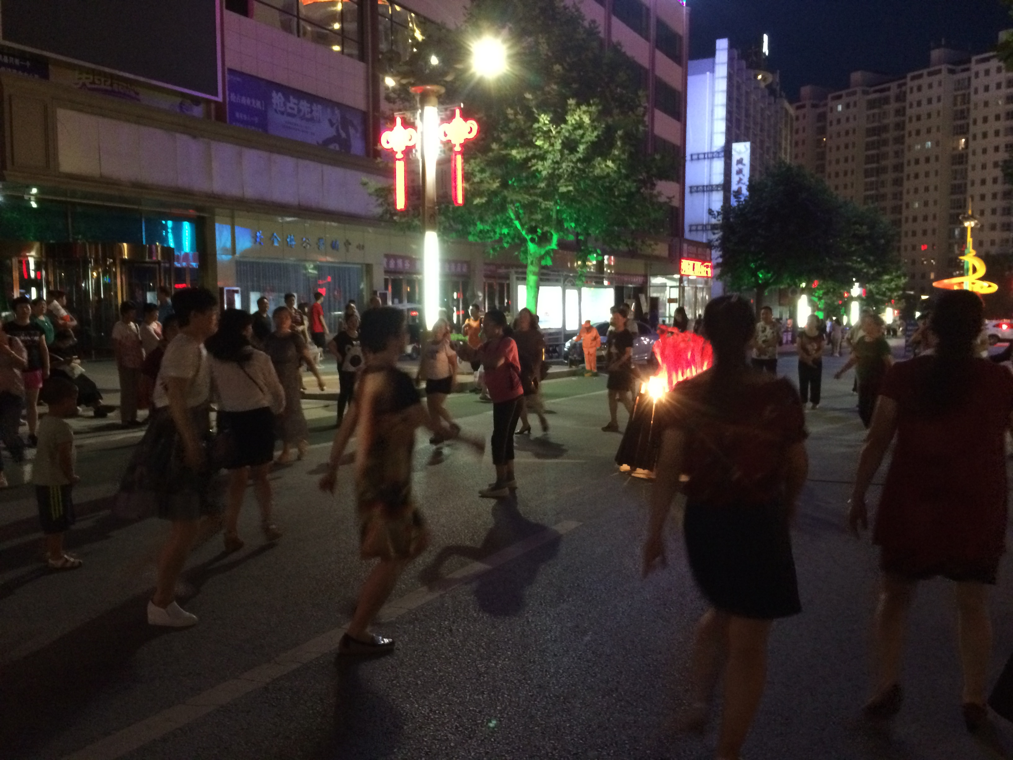 A common activity for the evening